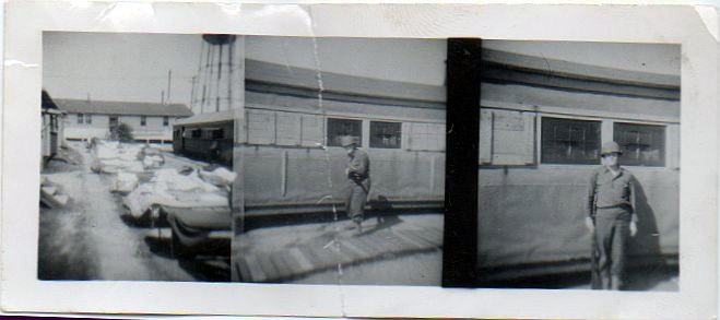 Bert Hewes, PFC, US Army, 8th Division, at Wöbbelin Concentration Camp, 1945. Picture on the left are bodies piled up outside barracks.